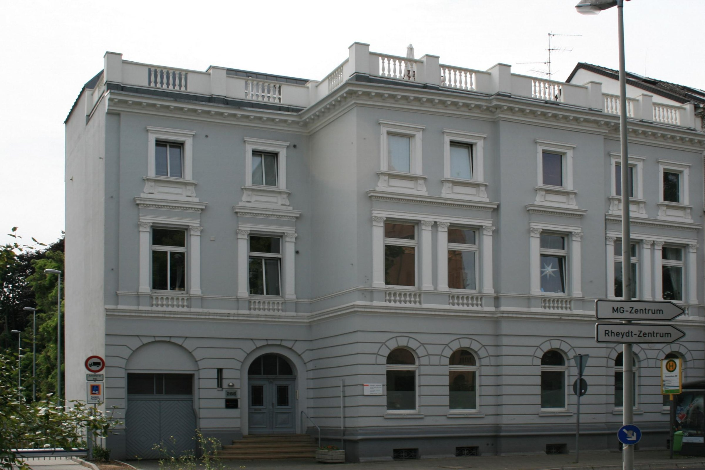 Cultural heritage monument No. H 053 in Mönchengladbach